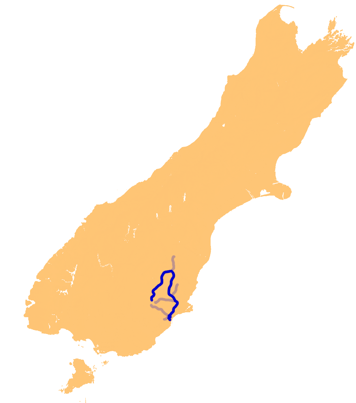 Location map of Taieri river in New zealand